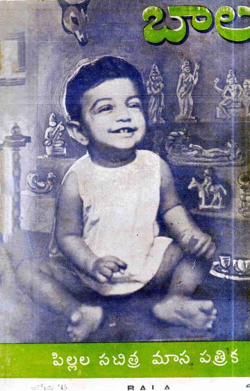 This is the cover page of Children's Illustrated Monthly October 1945 Issue edited by Nyayapati Raghava Rao